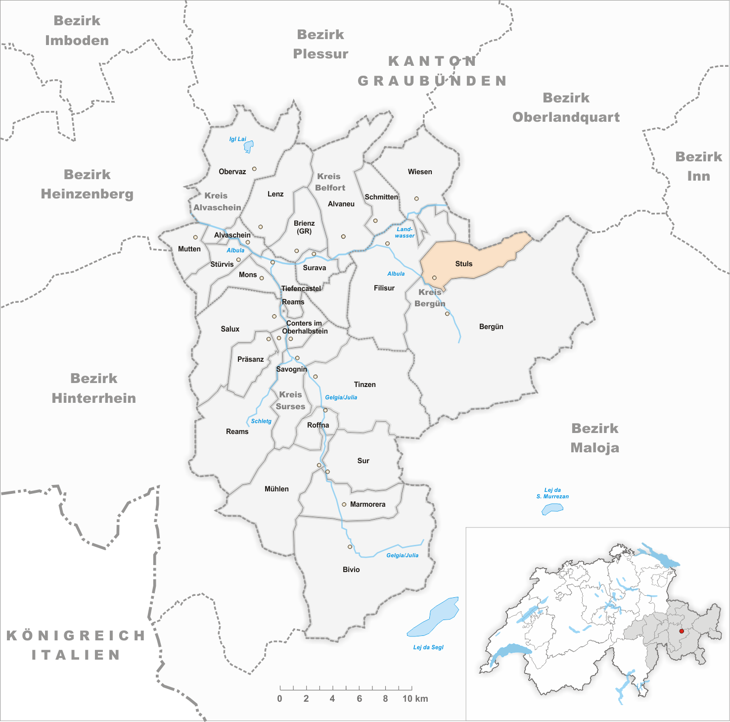 Municipality Stuls Artist: Tschubby